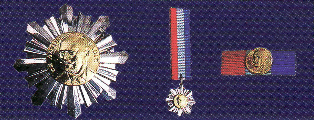 Badge and Ribbon of Order of Danica Hrvatska with the face of Antun Radić